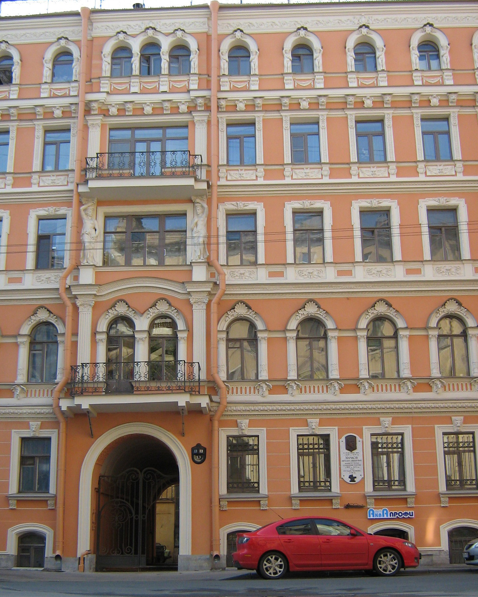 13, Saperny Lane in Saint Petersburg (Russia); here lived Mikhail Khilkov